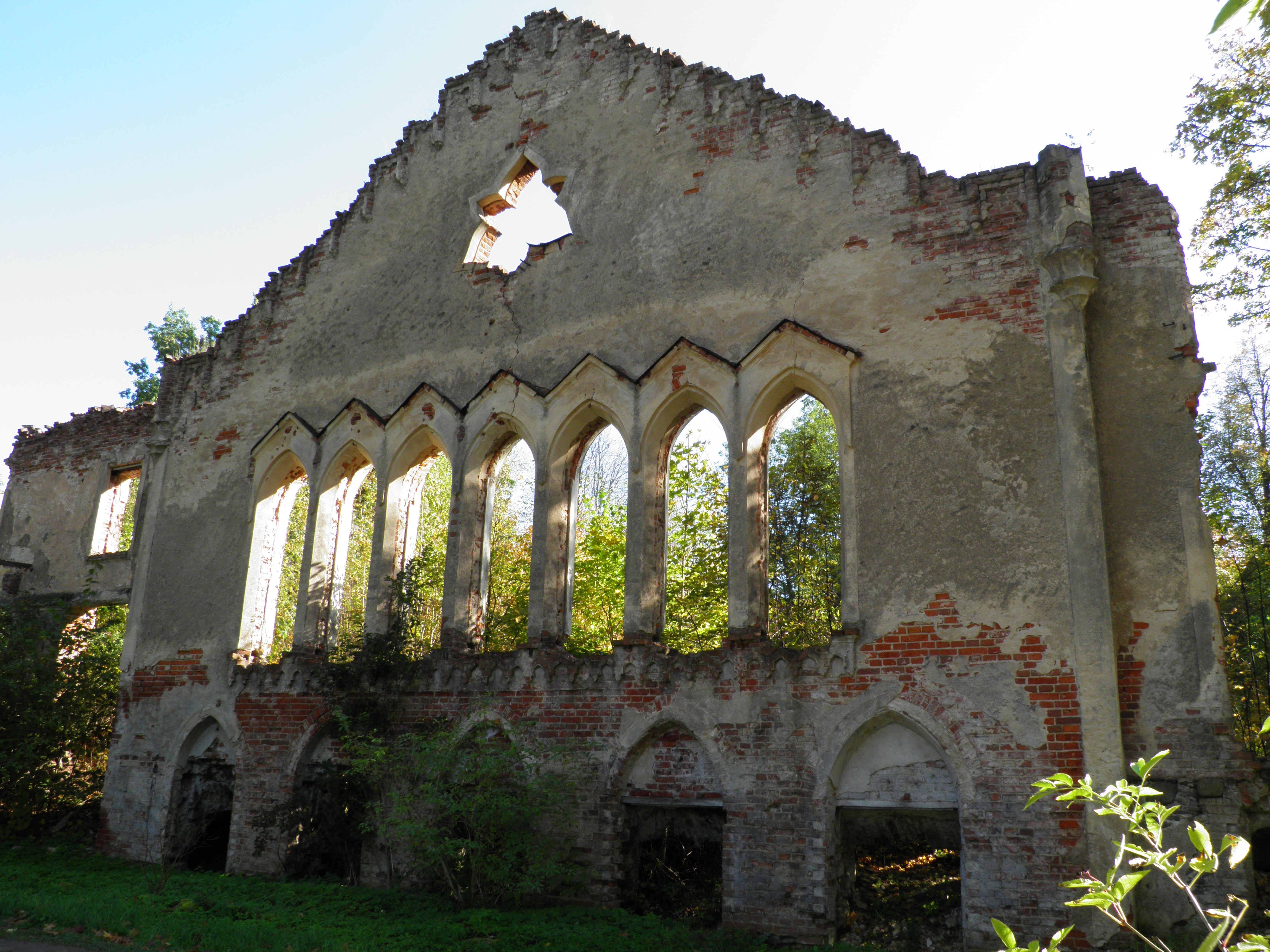 manor